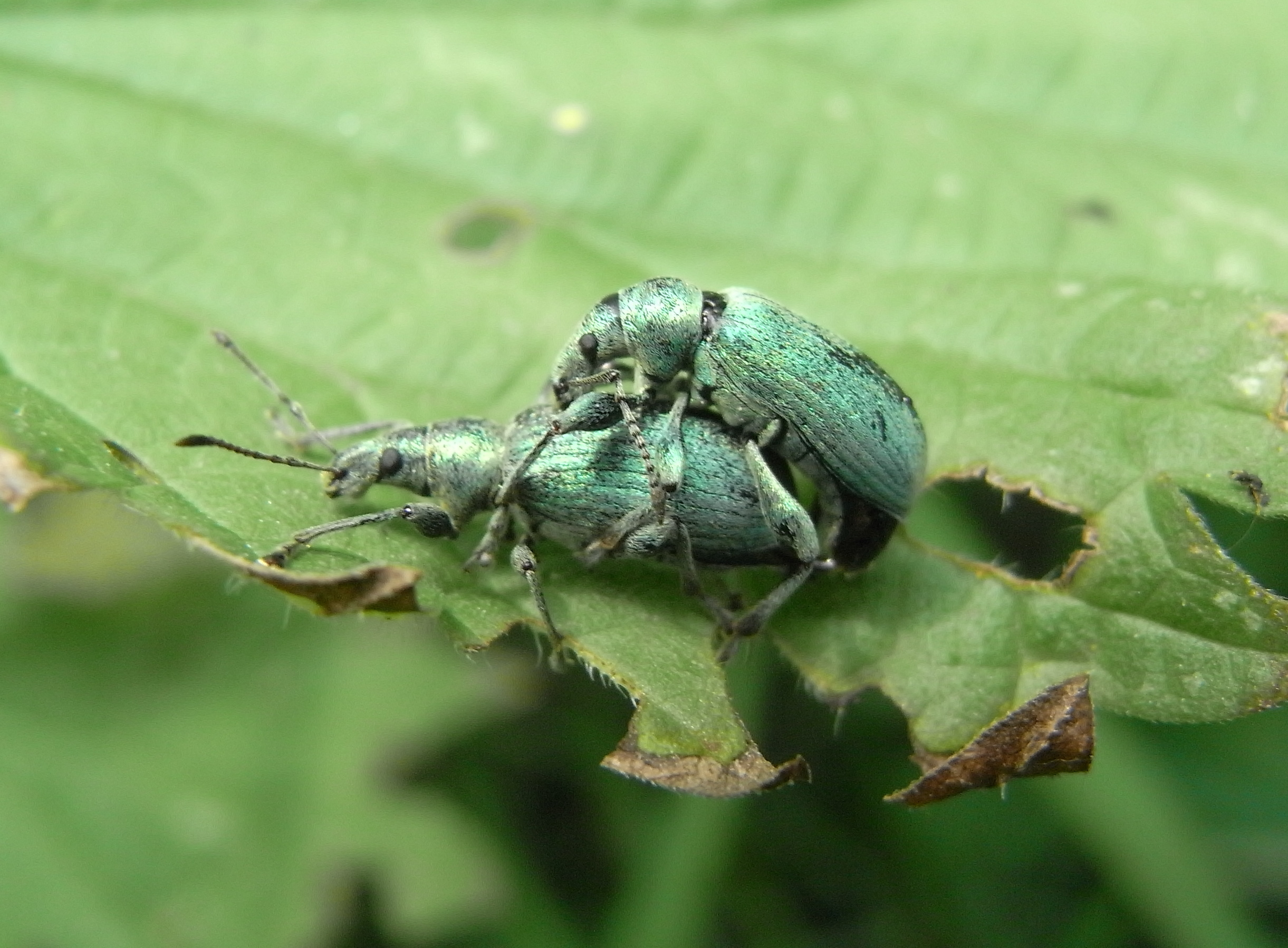 Weevils (Phyllobius calcaratus) mating.